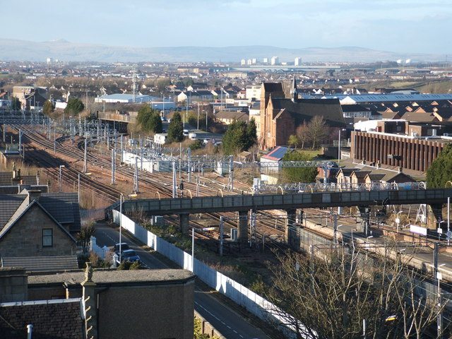 Motherwell Railway Lines